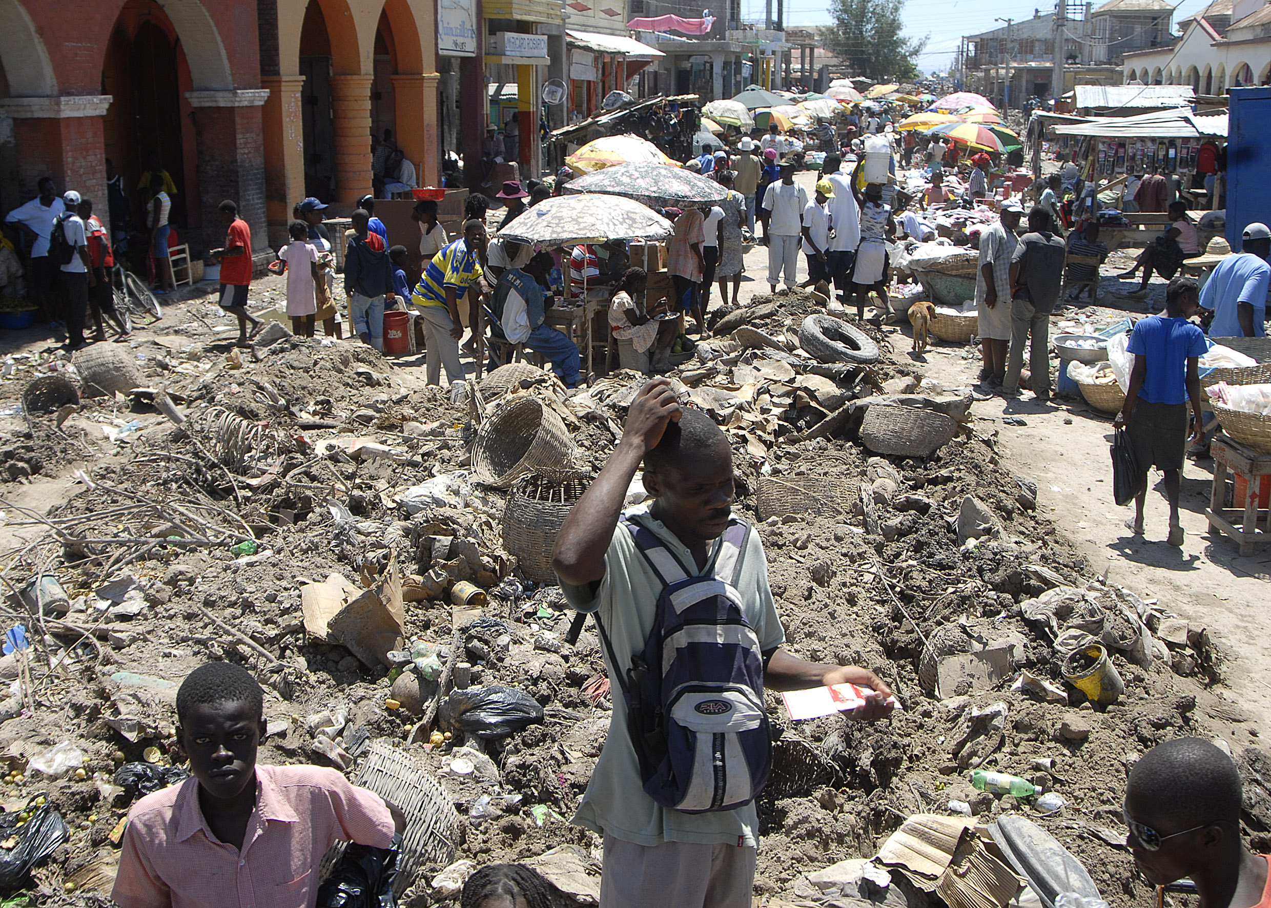 Gonaïves, Haiti, after the hurricanes.